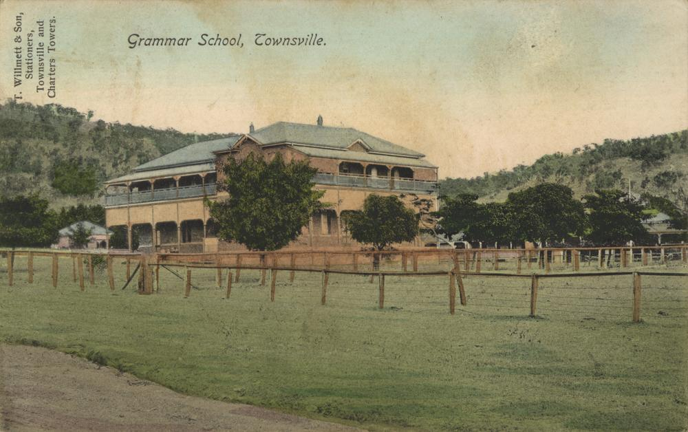 Grammar School, Townsville, ca. 1905. T. Willmett & Son, Stationers, Townsville and Charters Towers.